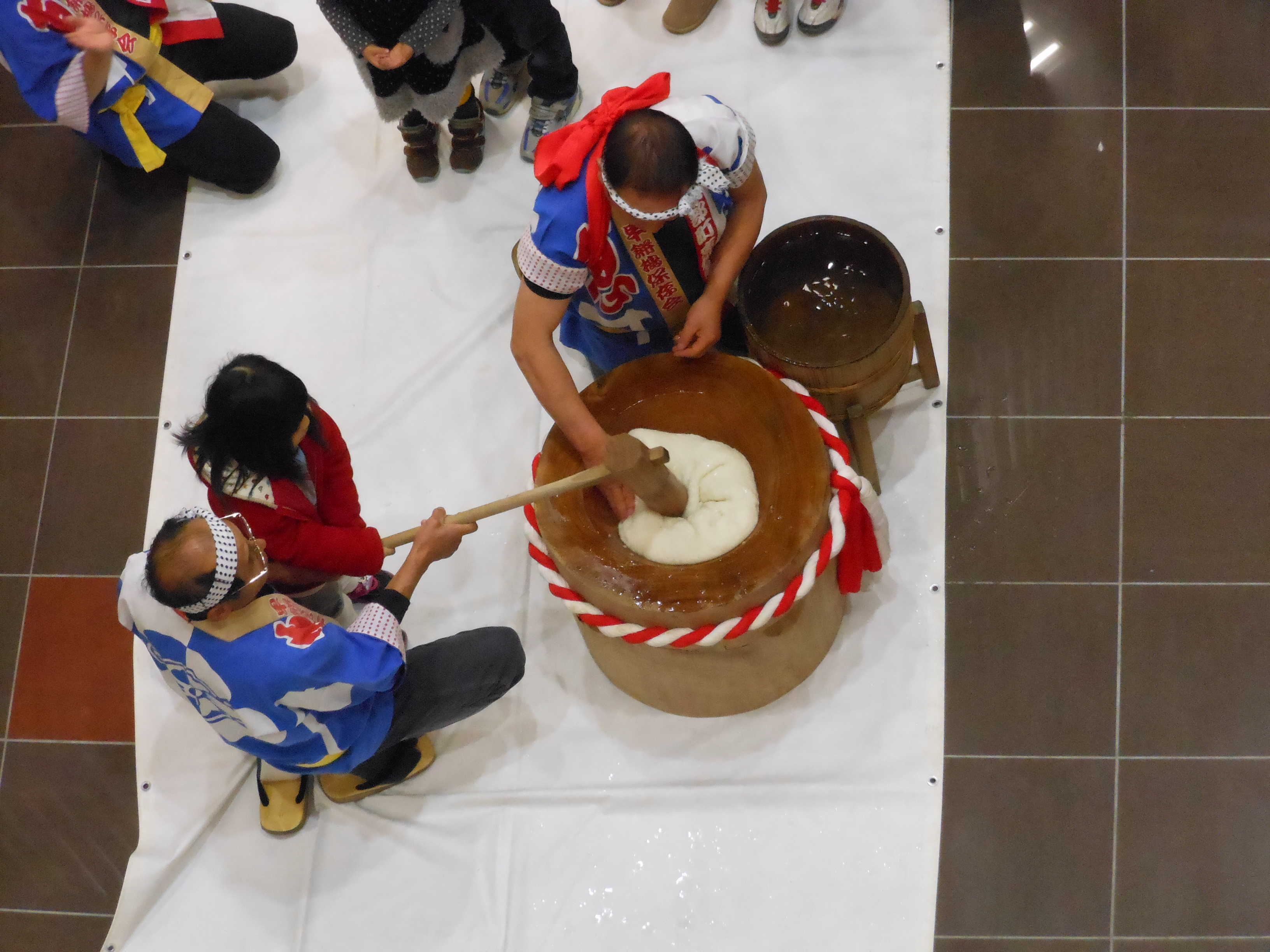 This is a scene in Erihara Hayamochitsuki or high speed pounding mochi of Erihara at AEON TOWN Ise-Lalapark.